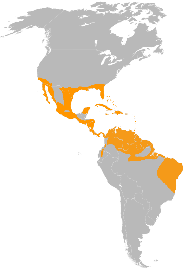 Distribution map of common ground dove based on IUCN data